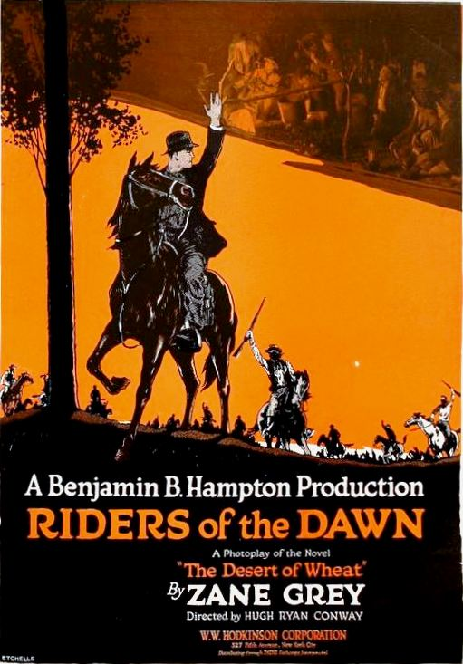 Ad for the American western film Riders of the Dawn (1920), on page 4265 of the May 22, 1920 Motion Picture News.